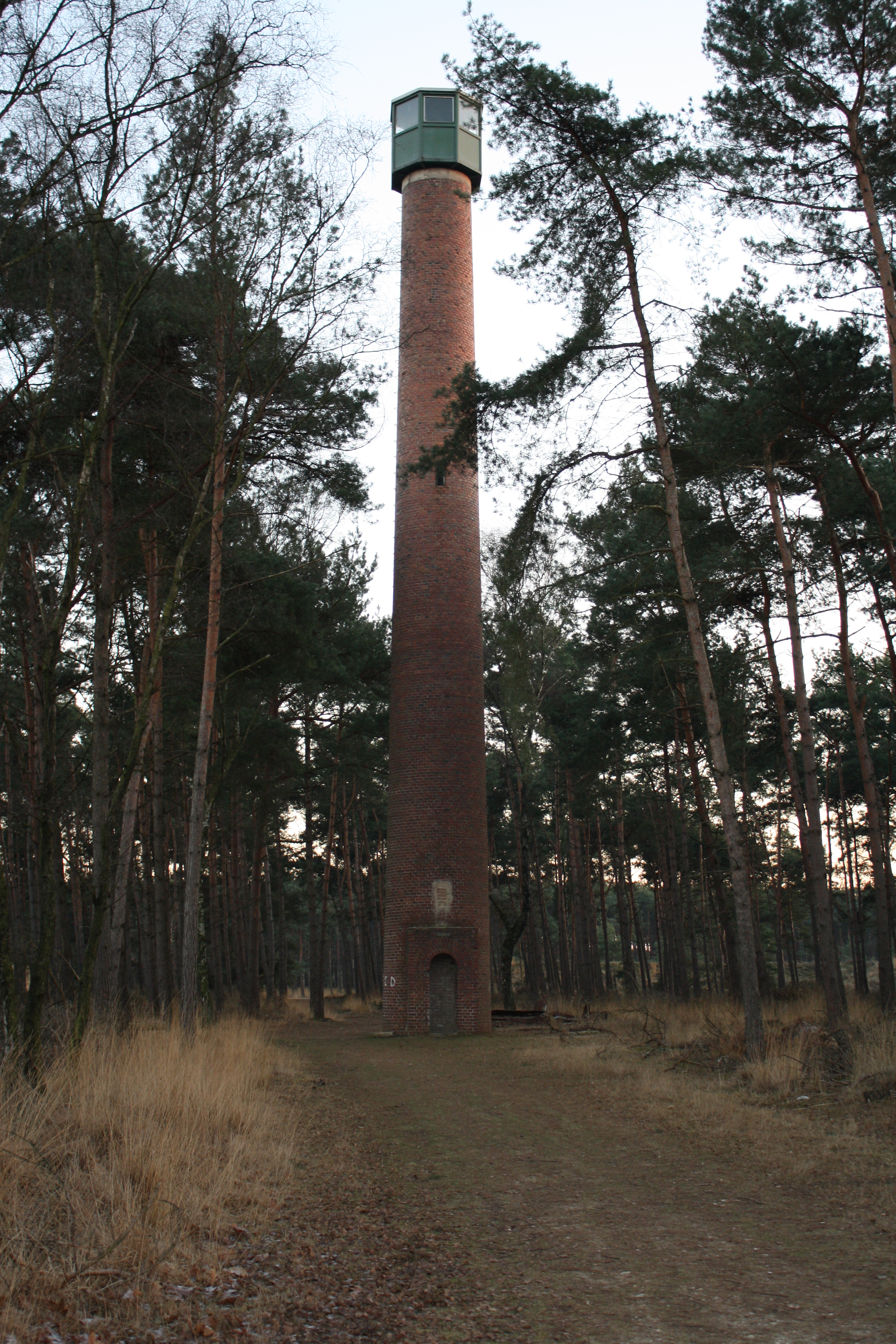 The old watchtower of the Raf (Royal Air force) at the bomb depot Brüggen is still standing, tower build at 1943.